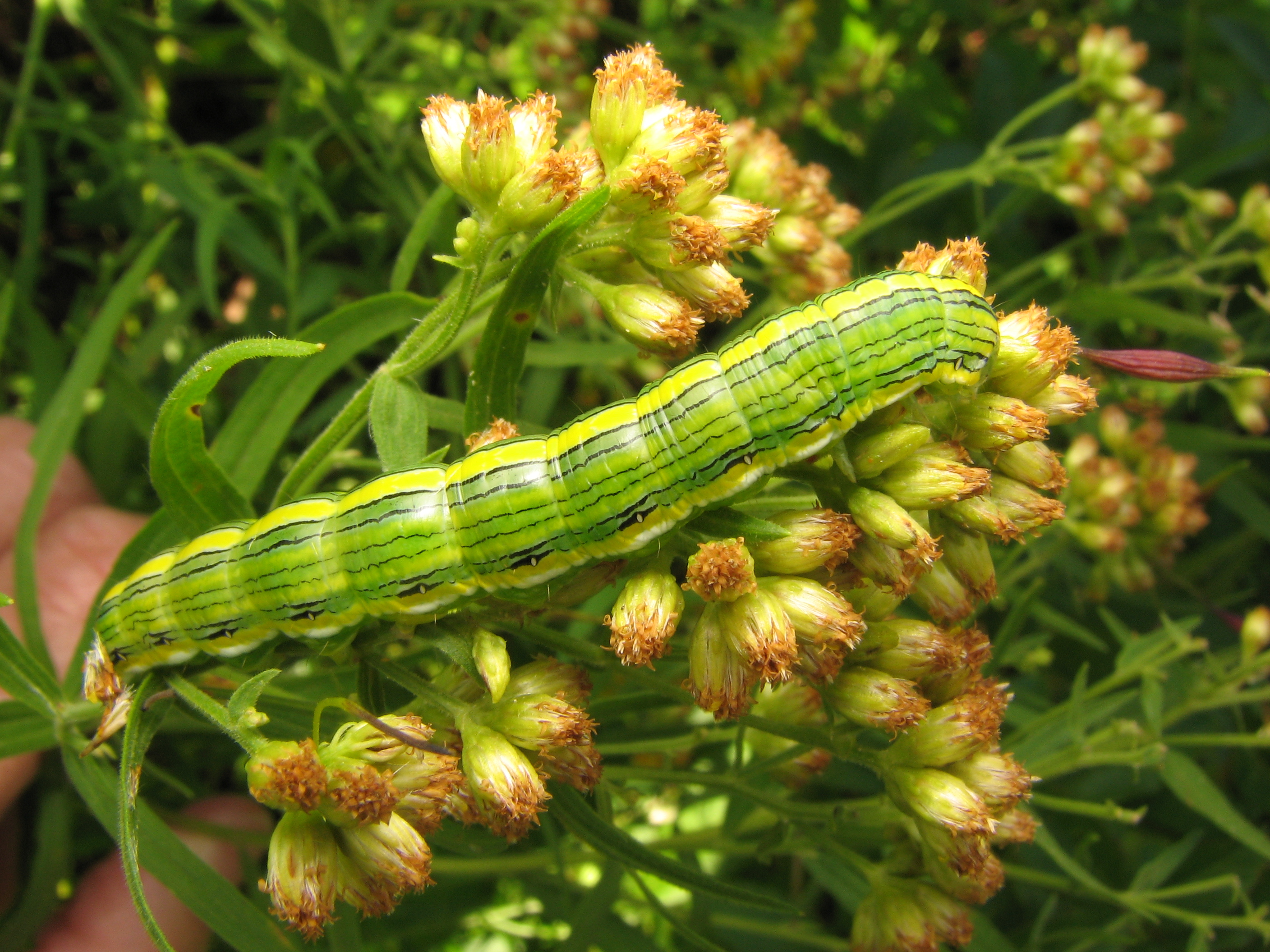 Noctuid moth caterpillar, Cucullia asteroides (Goldenrod Hooded Owlet - Hodges#10200), on Euthamia flower. Horsham trail. Horsham, Montgomery County, Pennsylvania, USA.